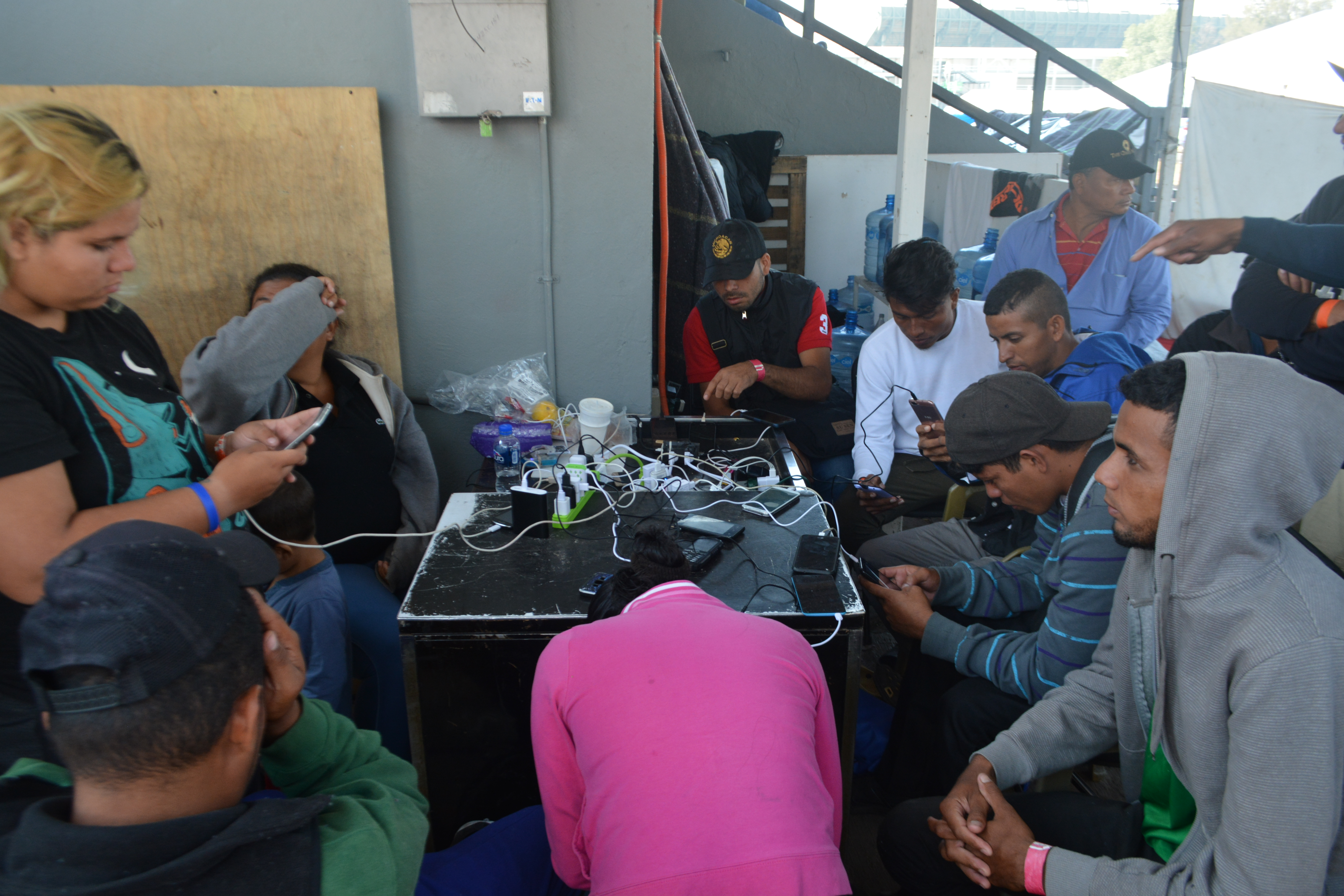 Migrants from Honduras, El Salvador and Guatemala charging their phones and external batteries in Ciudad Deportiva Magdalena Mixhuca temporary camp, Mexico City.